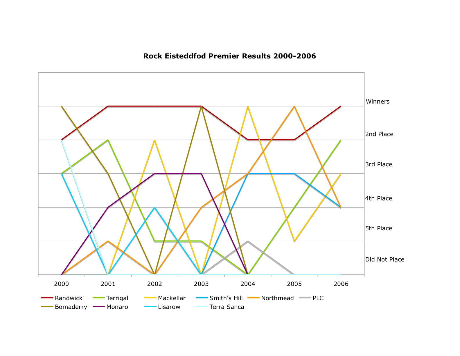 Rock Eisteddfod Premier Results 2000-2006. Created by Dean Barnett using publicly available information.